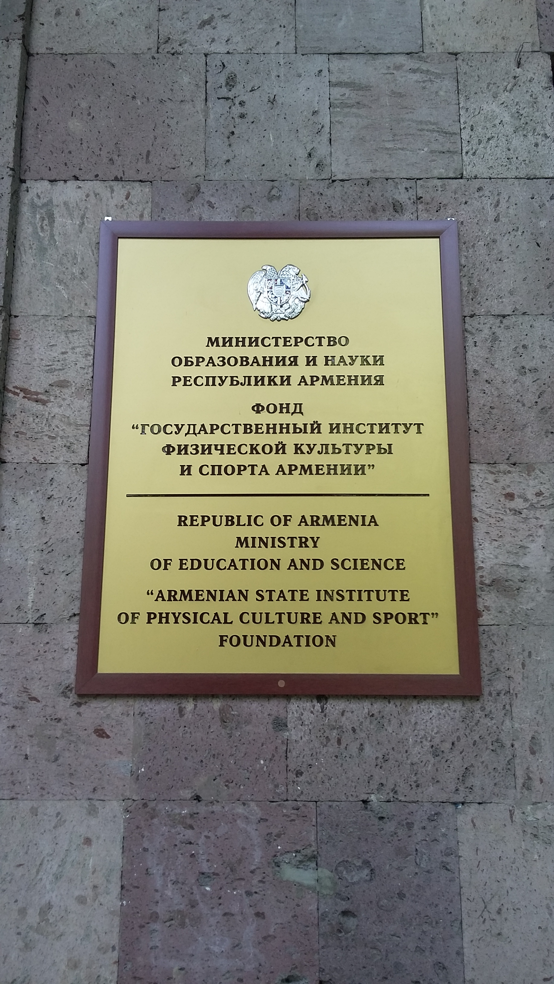 Armenian State Institute of Physical Culture and Sport